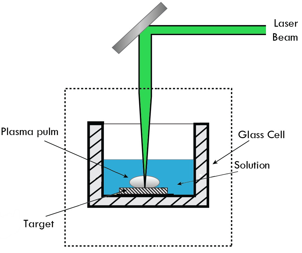 Laser ablation in solution medium